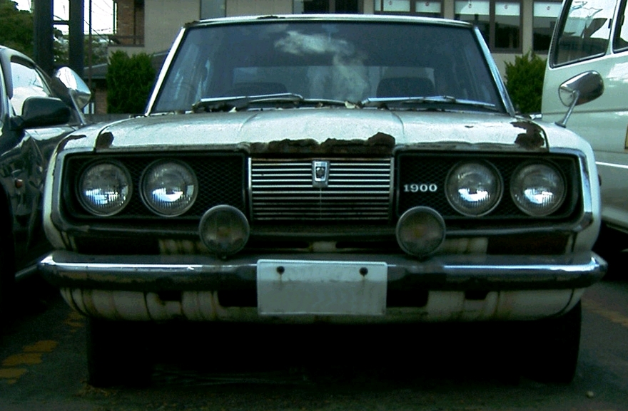 Toyota_Toyopet_Mark_II_1900 - 1970 type